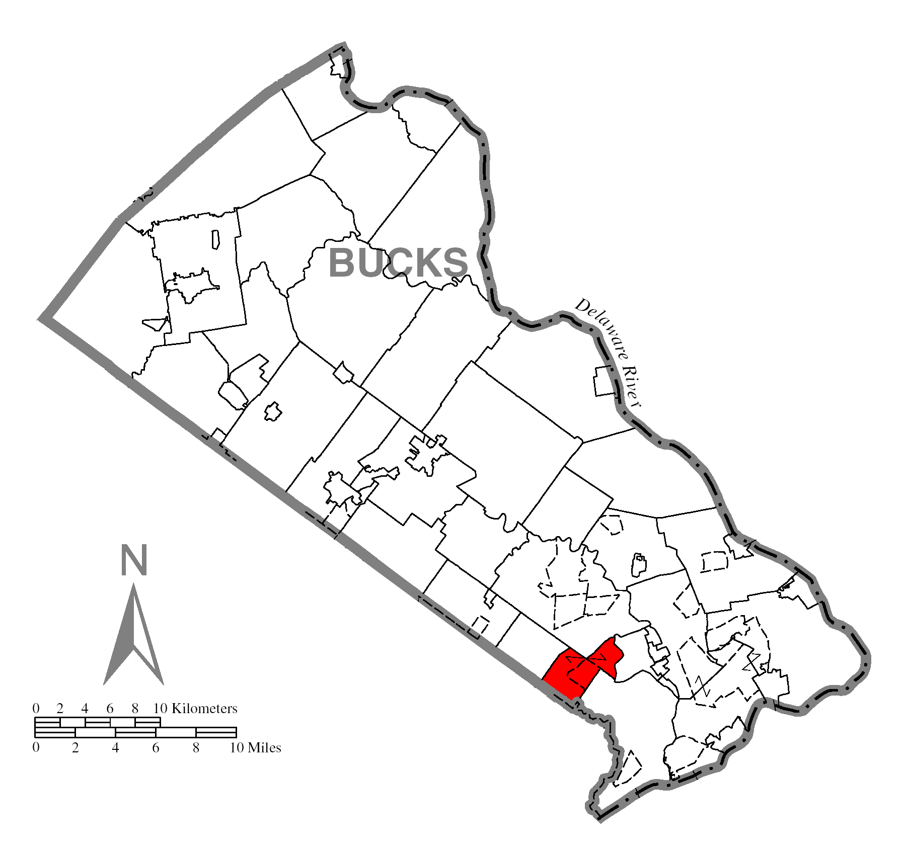 A map of Bucks County showing Lower Southampton Township, Pennsylvania (alternate) highlighted on the map.